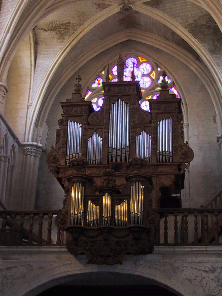 Auxonne, Burgundy, FRANCE.